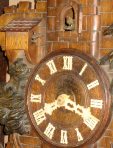 A mother and baby double cuckoo clock displayed at the Uhrenmuseum Guethenach in Germany